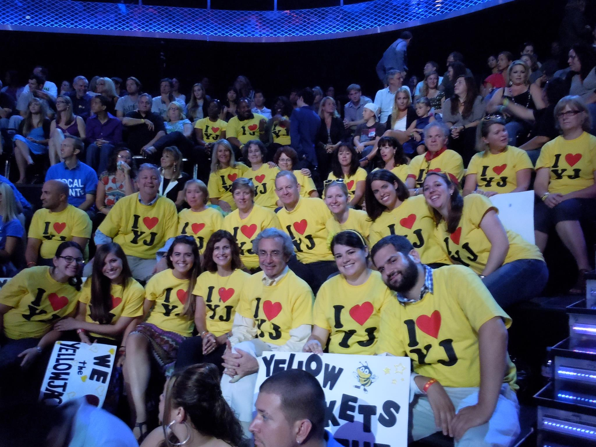 Fans of The University of Rochester YellowJackets at a live taping of "The Sing-Off"